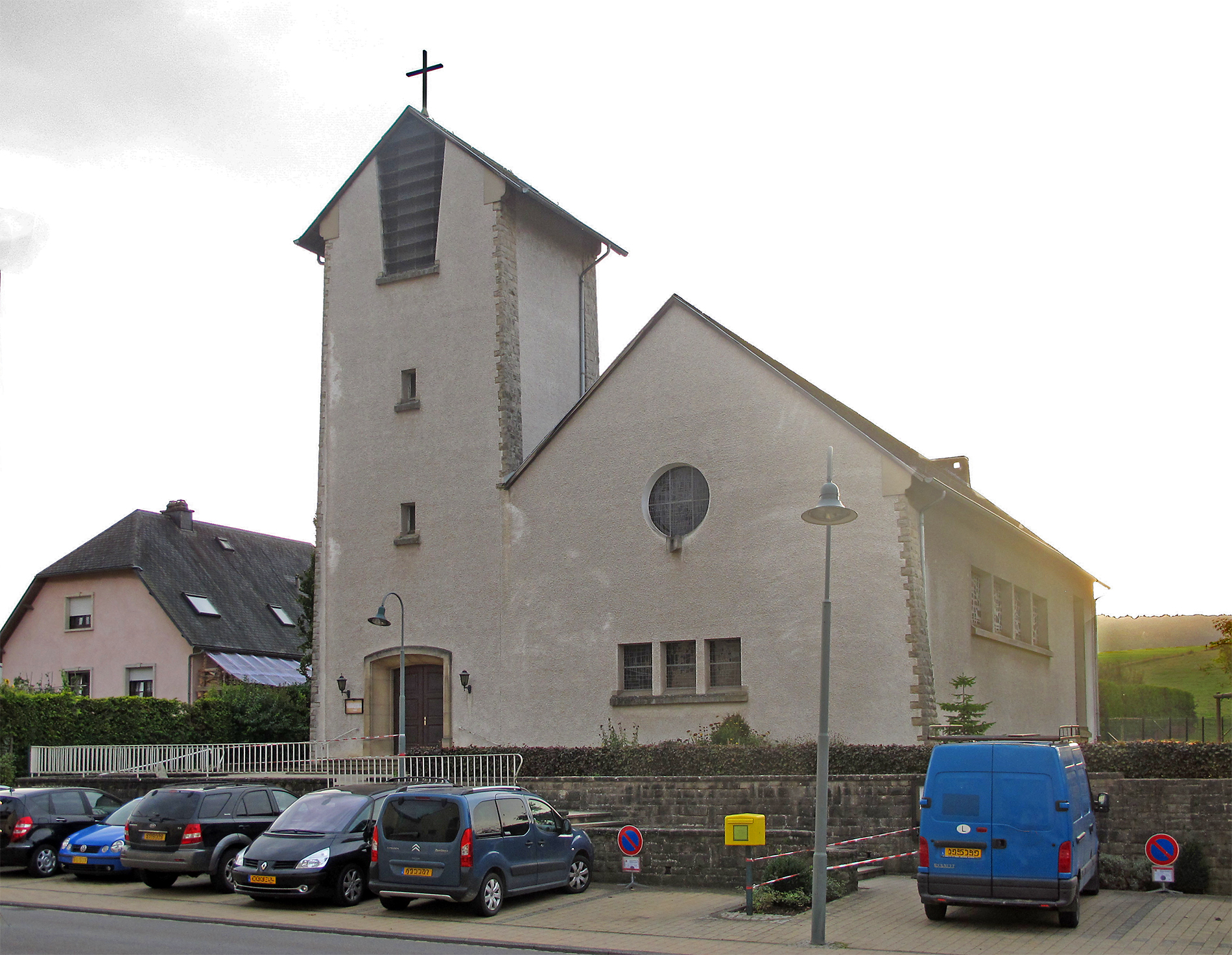 Church of Hunsdorf, Luxembourg